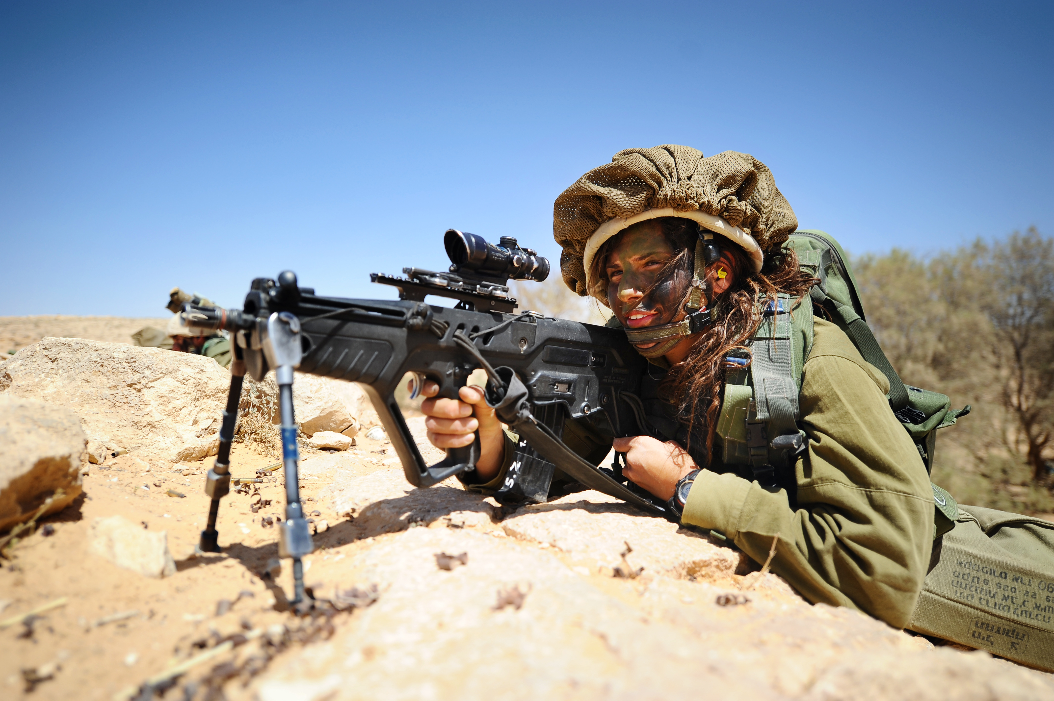 Soldiers of the Caracal co-ed battalion during a platoon exercise in southern Israel.